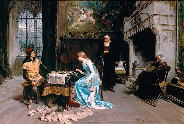 A Game of Chess (scene from a play by Giuseppe Giacosa)